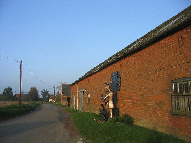 Capel St Andrew, Suffolk. Looking north-east from Home Farm. The figure on the barn wall is a metal-work sculpture with the village sign in shape of a tree behind.